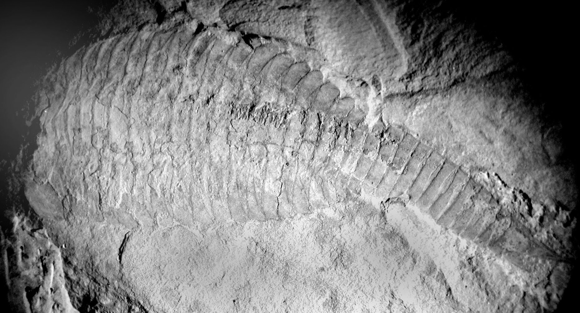 Fuxianhuia protensa from the Lower Cambrian Chengjiang Fauna.